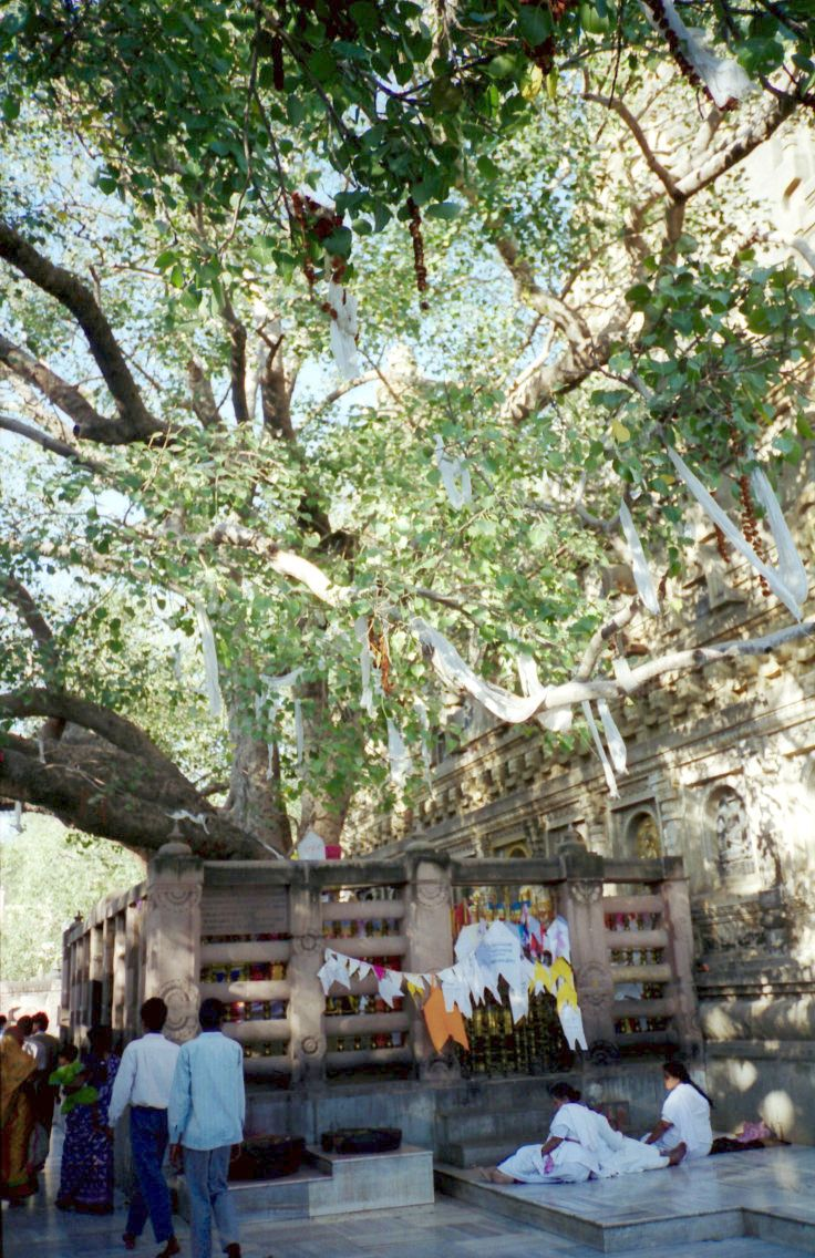 Mahabodhi tree (Sacred Fig) next to the Mahabodhi Temple, the spot where Siddhartha Gautama, the Buddha, attained enlightenment.